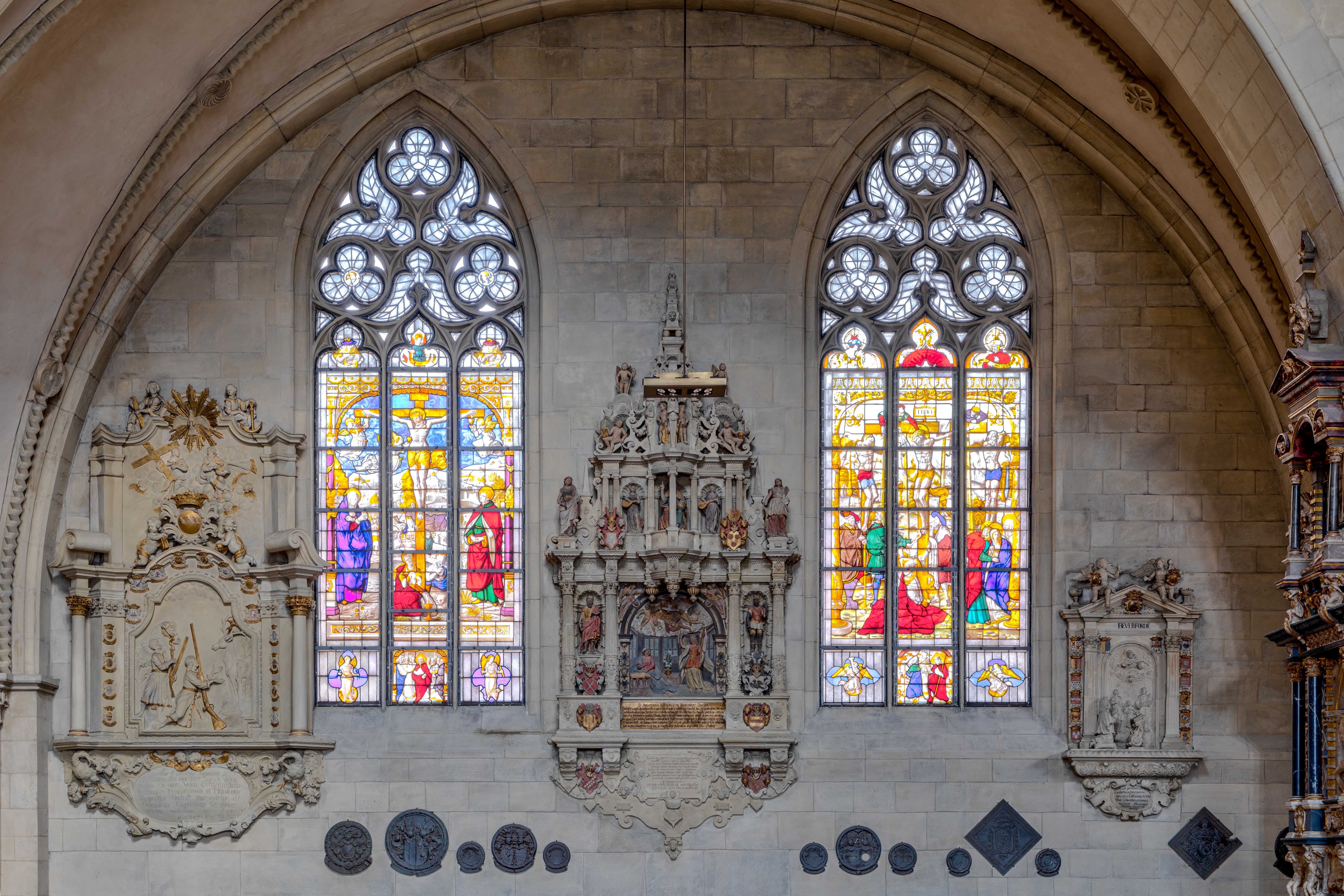 Window in northern aisle of St Paul's Cathedral in Münster, North Rhine-Westphalia, Germany